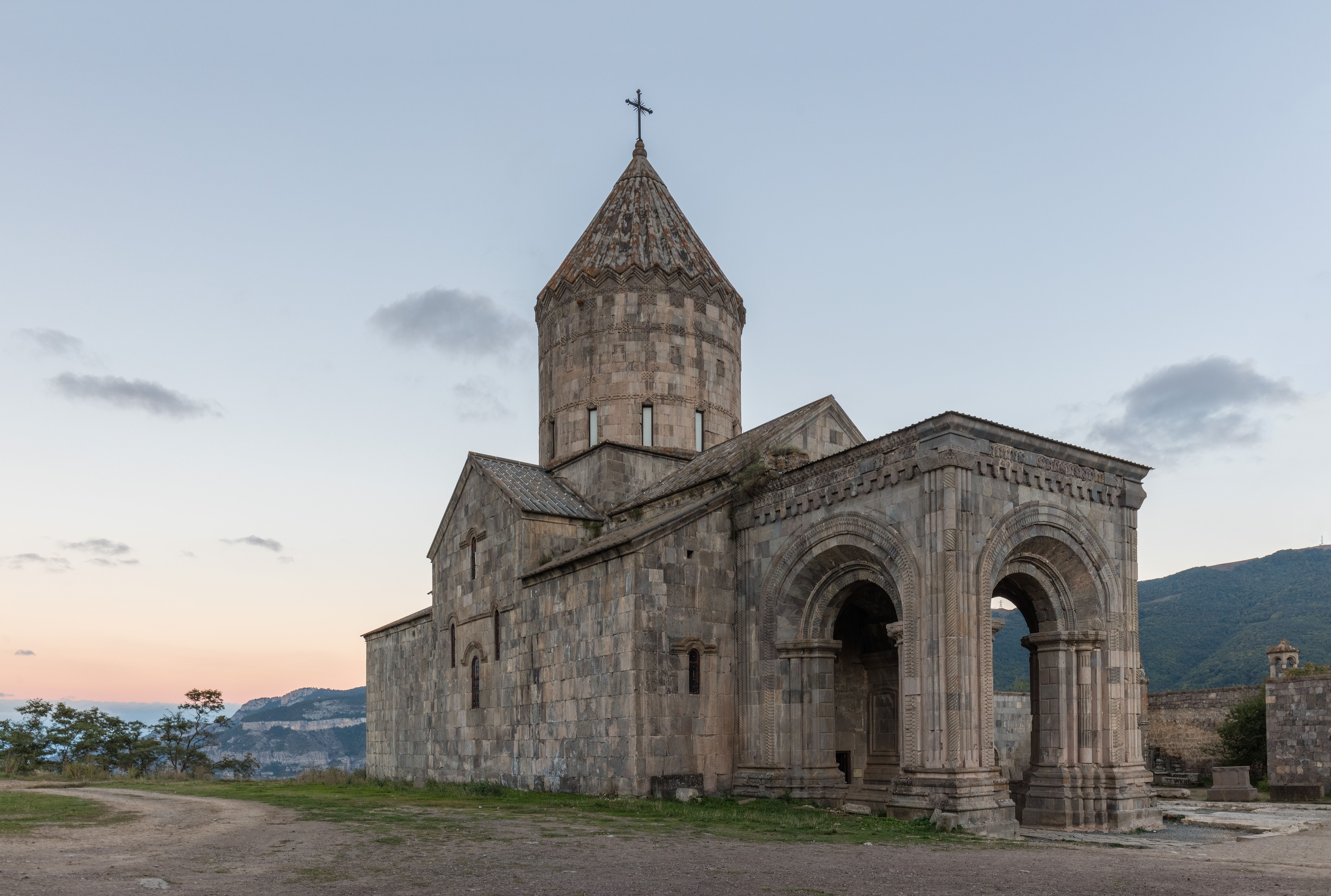 St Gregory church of the Tatev monastery during sunset, Syunik Province in southeastern Armenia. The Armenian Apostolic monastery, built in the 9th century, hosted in the 14th and 15th centuries one of the most important Armenian medieval universities, the University of Tatev, which contributed to the advancement of science, religion and philosophy, reproduction of books and development of miniature painting.